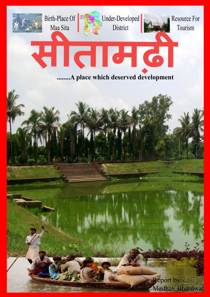 sitamarhi tourism copy.